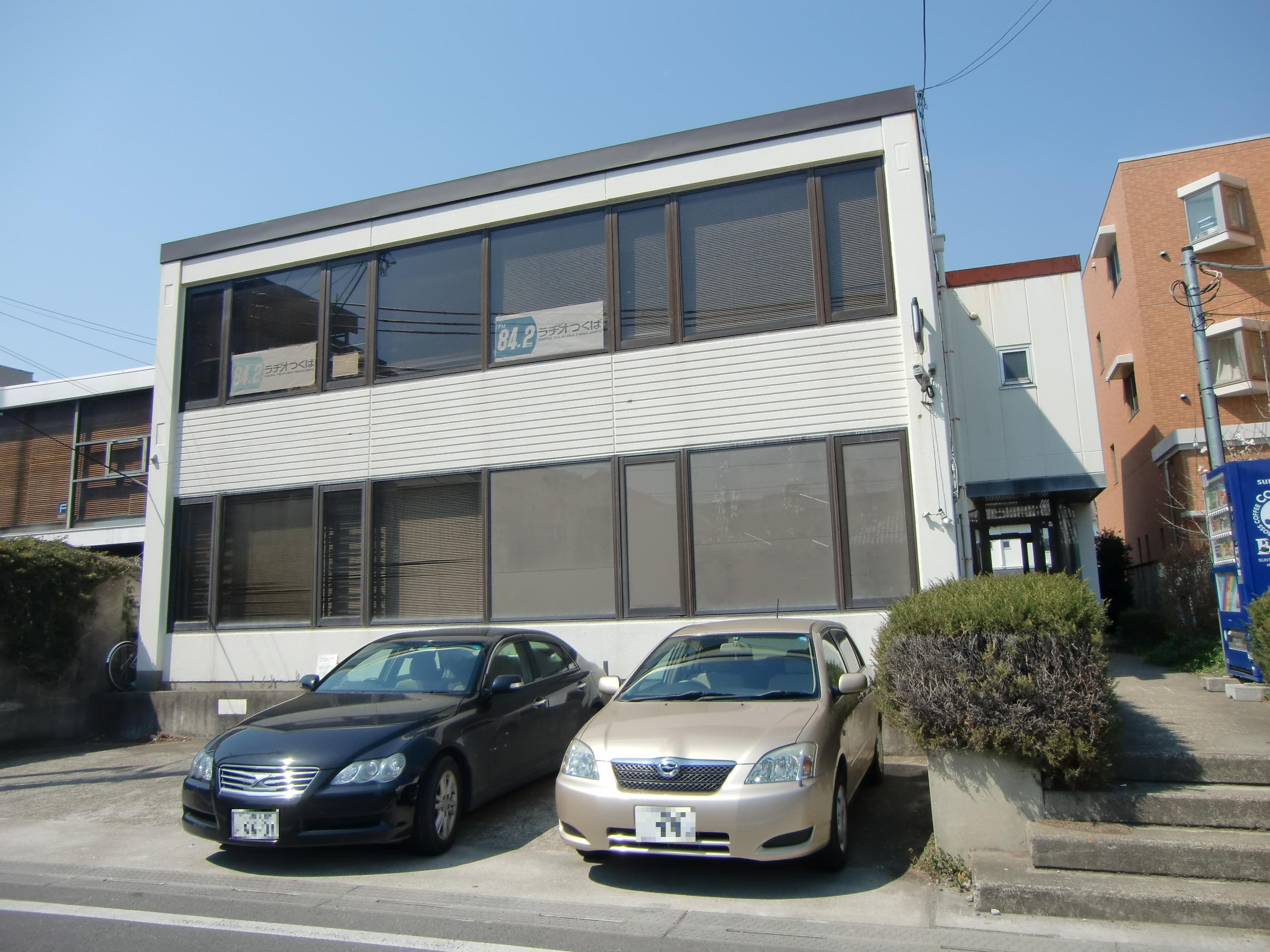 Radio Tsukuba broadcast building in Azuma 3-chome, Tsukuba city, Ibaraki prefecture, JAPAN.